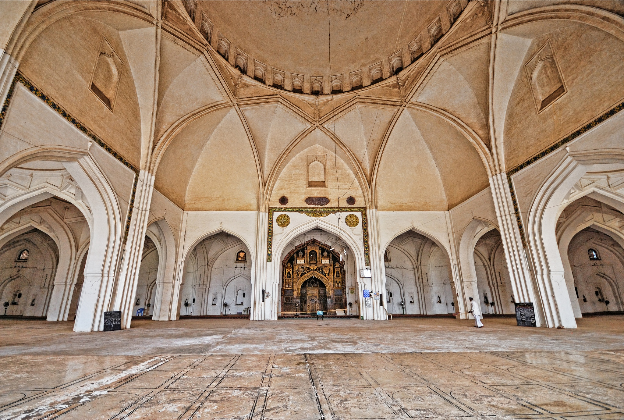 Bijapur Jama Masjid, built between 1557 and 1686, is the largest and the first constructed mosque in Bijapur, Karnataka. One of the finest mosques in India, it is a massive structure with huge onion-shaped domes. It was constructed during the period of Adil Shah I, a ruler of Adil Shahi Kingdom, to commemorate the Talikota victory. Later during the reign of the Mughal Emperor Aurangzeb, many alterations were made and a gateway was erected on the eastern side. He also painted the floor with 2,250 squares for the worshippers. Jama Masjid holds a copy of Koran, written in gold. It also has a large hall that is divided into 45 compartments. The Barah Cummon created with twelve interleaving arches is where programs are staged.